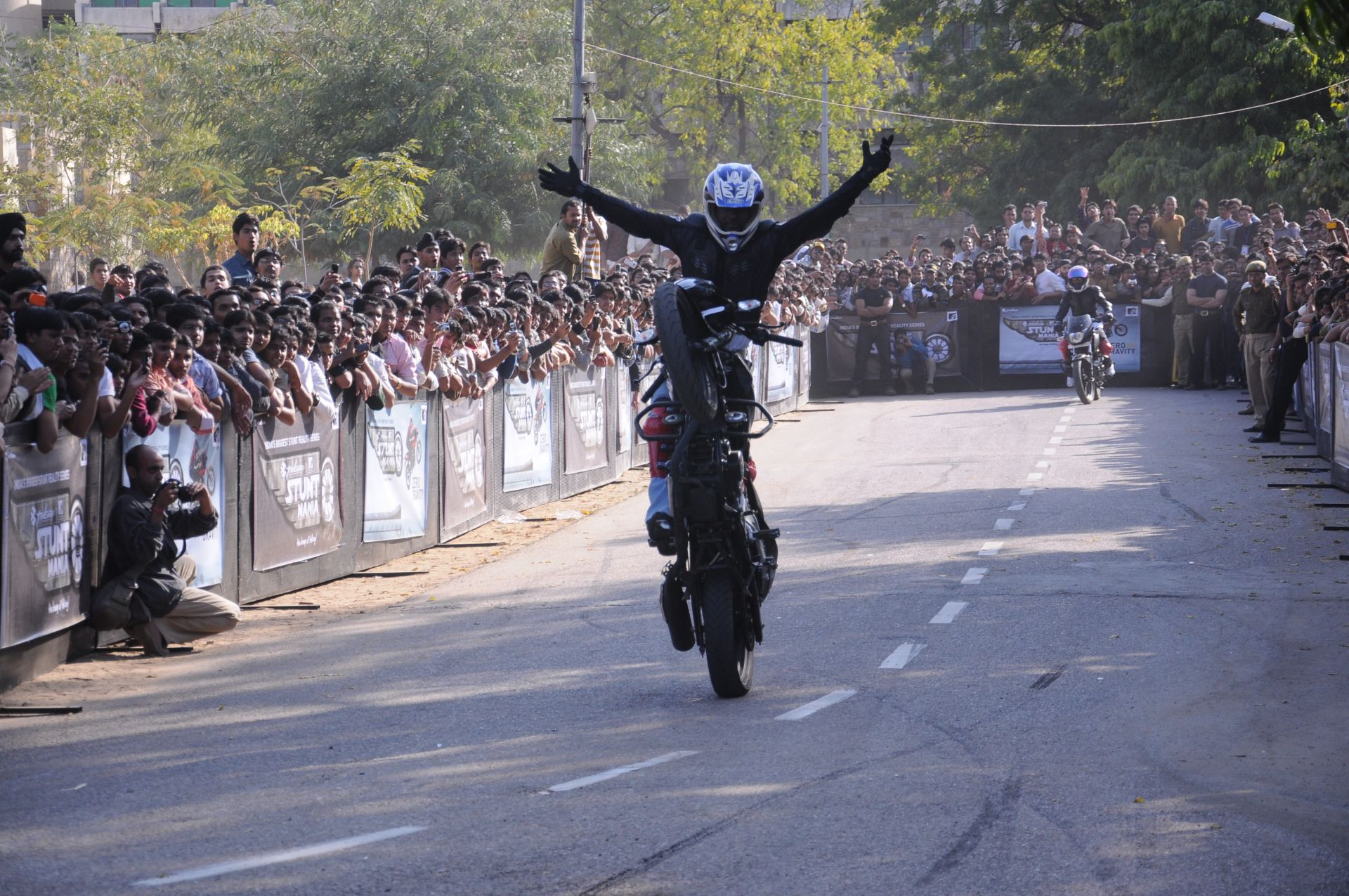 Blitzschlag2010 Stuntmania